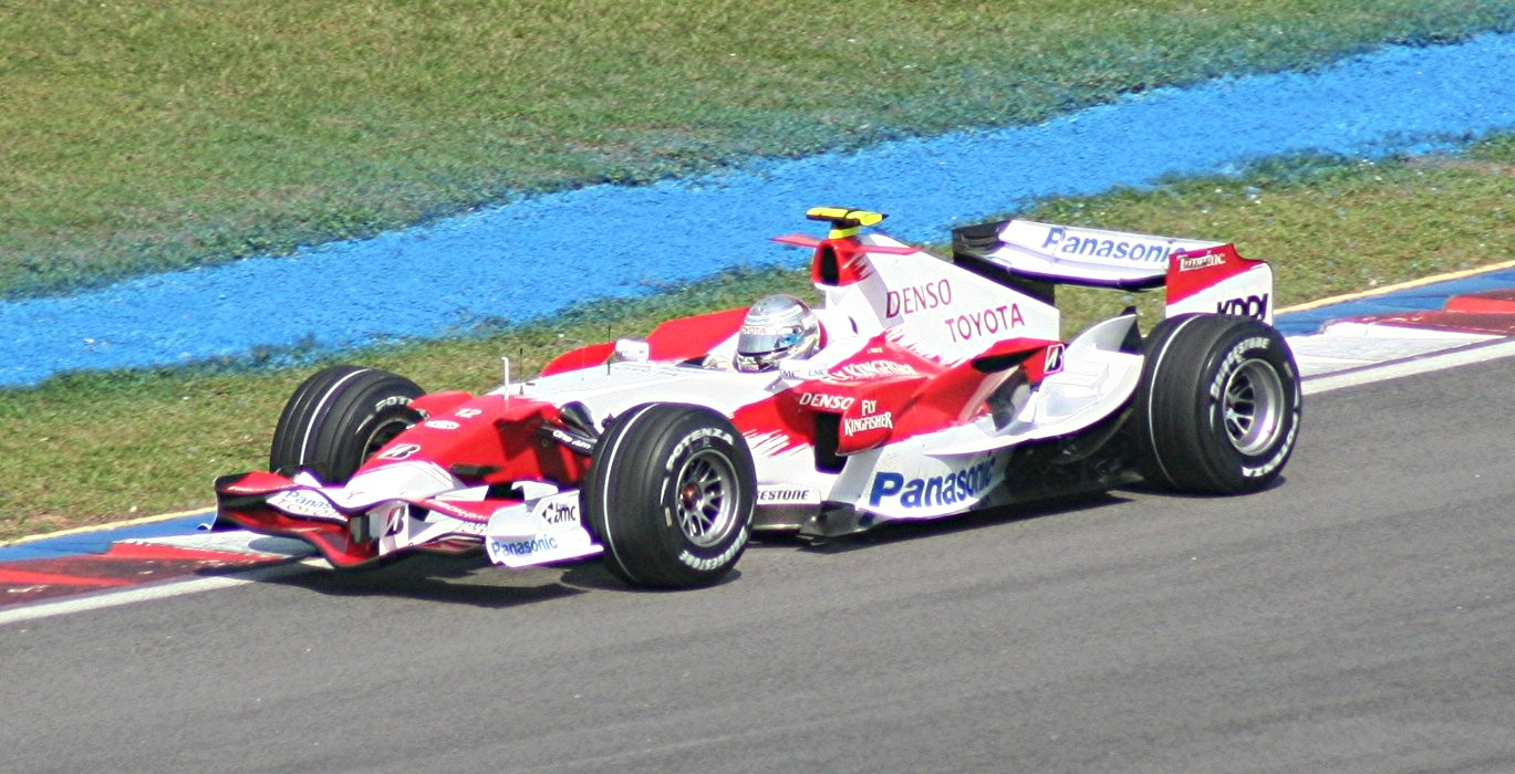 Jarno Trulli driving for Toyota F1 at the 2007 Malaysian Grand Prix.